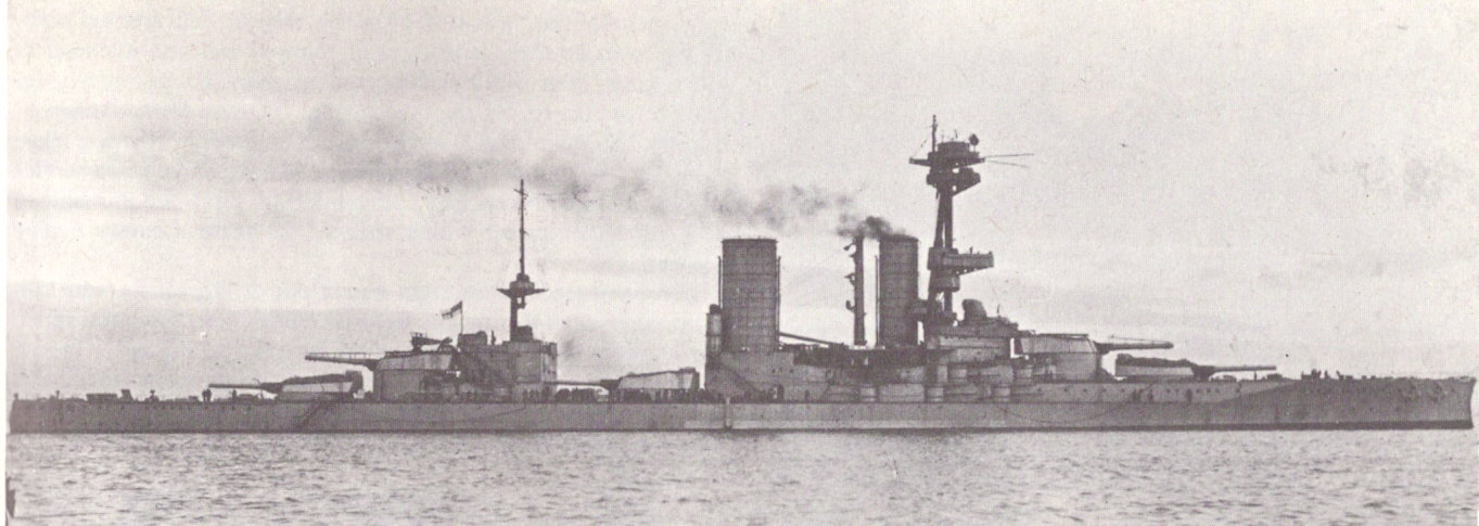 The British battleship